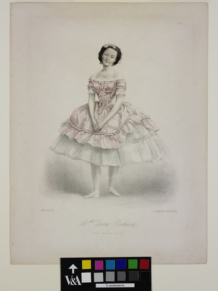 Zina Richard in Marco Spada ballet lithograph coloured by hand, Paris, c. 1860 Dame Marie Rambert Collection